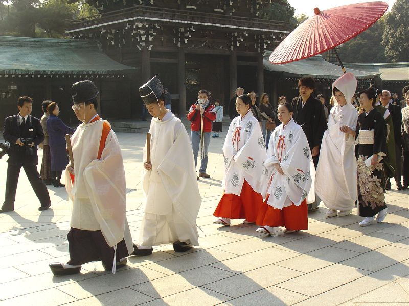 Traditional wedding ceremony at the Meiji-jingu